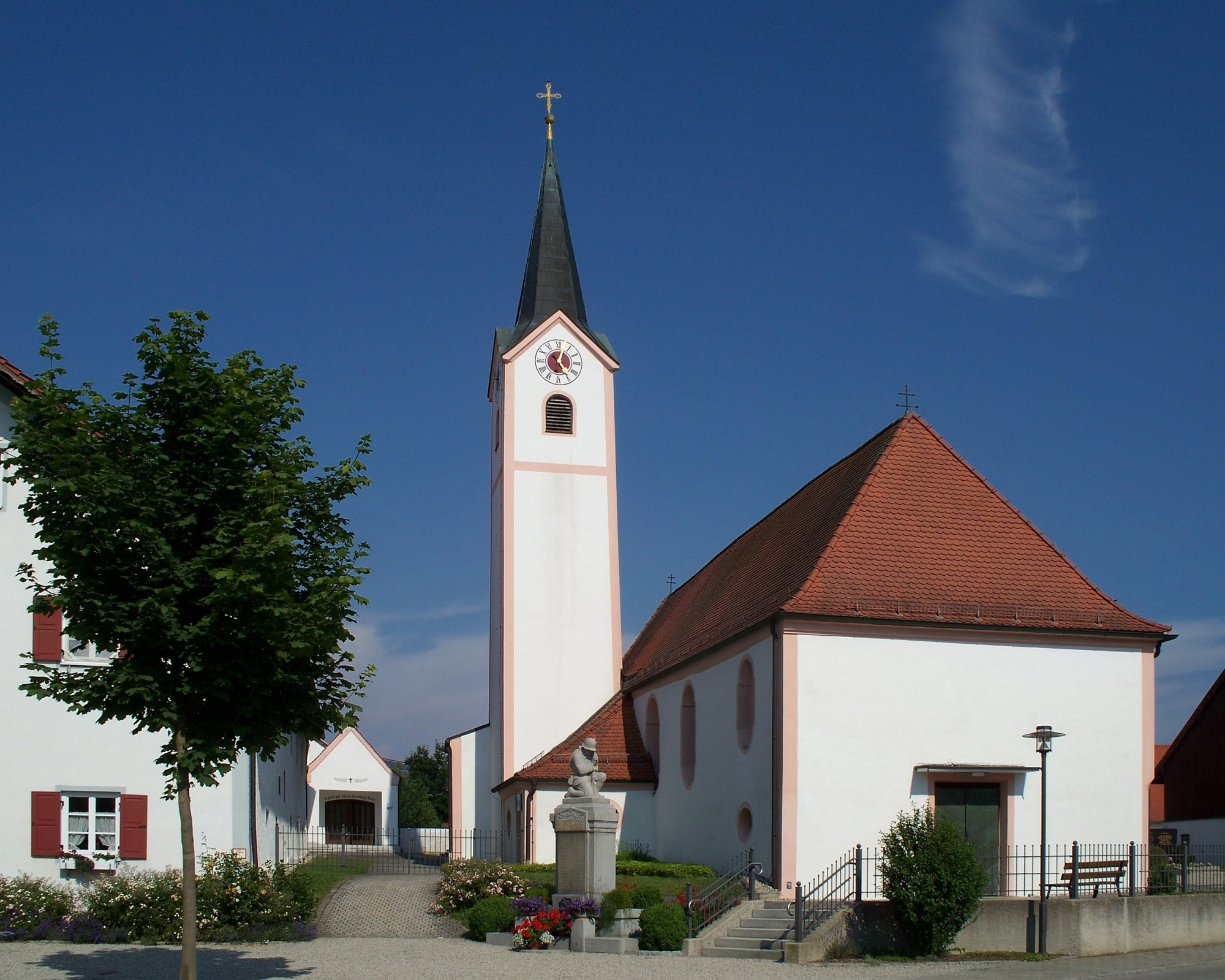 St. John the Baptist Church of Ottmaring in Bavaria, Germany.